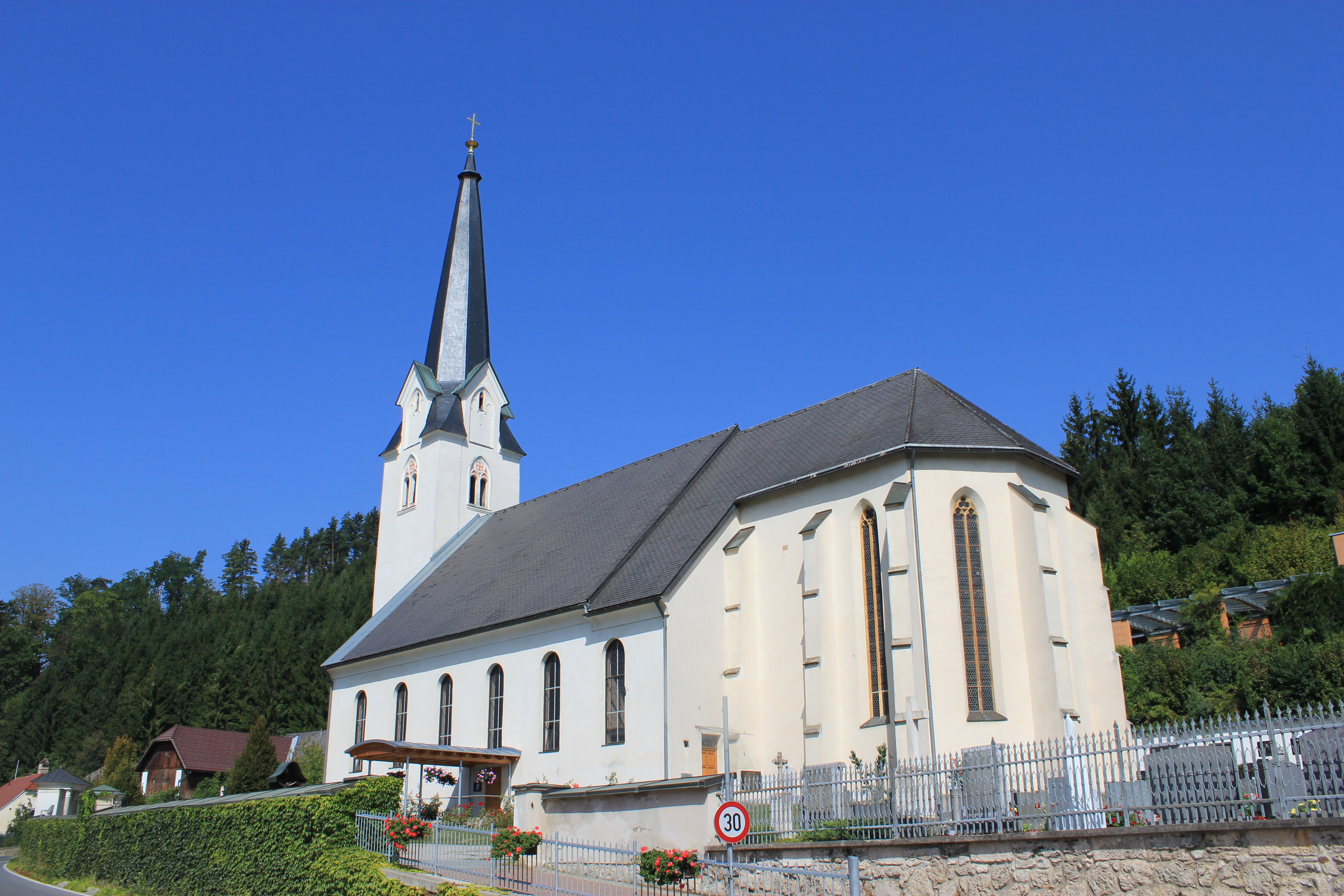 Church in Sankt Michael ob Bleiburg in the community of Feistritz ob Bleiburg